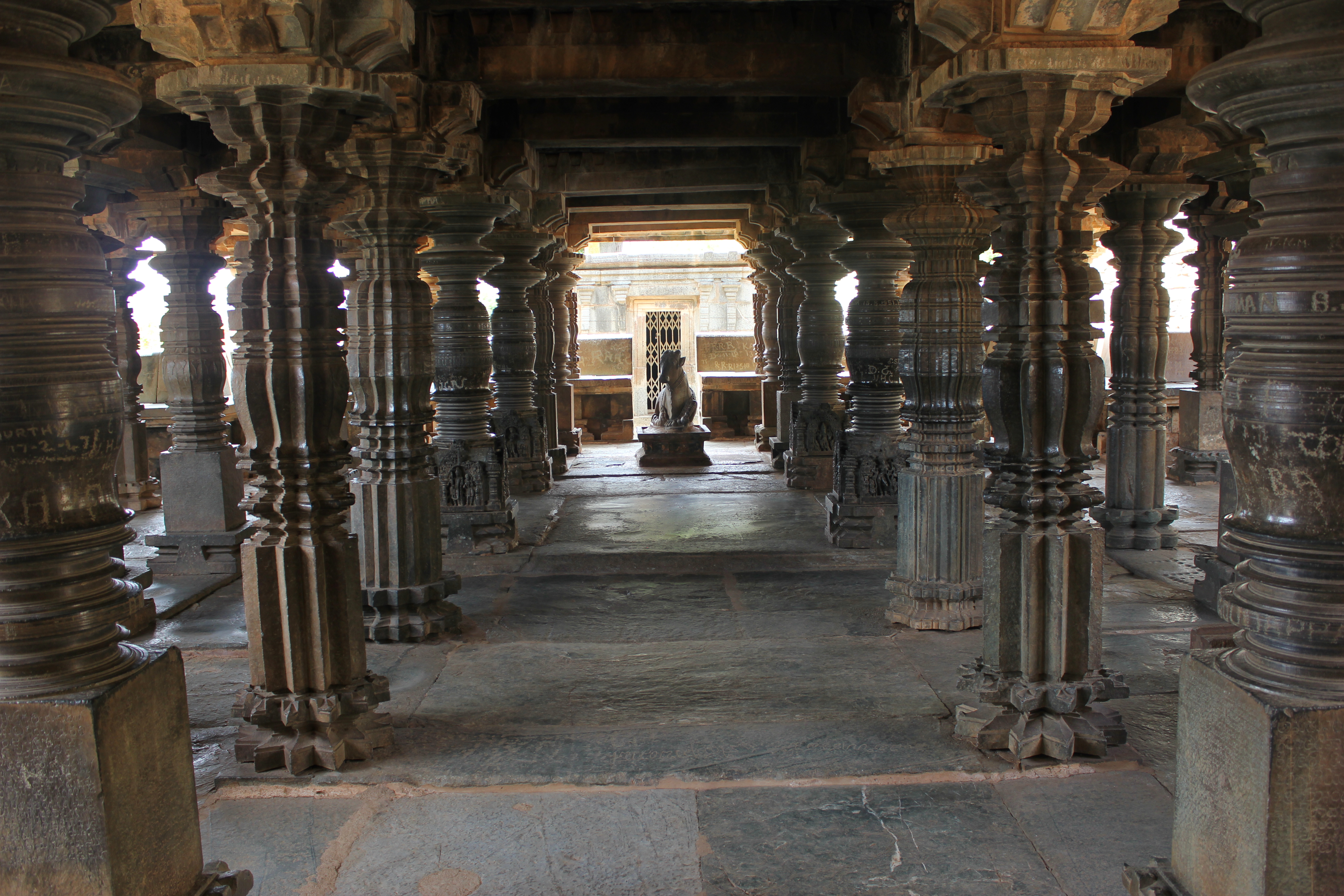 This photograph was taken by me at the Kalleshvara temple (also spelt Kalleshwara or Kallesvara) at Bagali (called Balgali in ancient times), Davangere district, Karnataka state, India. The temple construction was started in the late Rashtrakuta period and completed by Western (Kalyani) Chalukya King Tailapa II in 987 A.D.